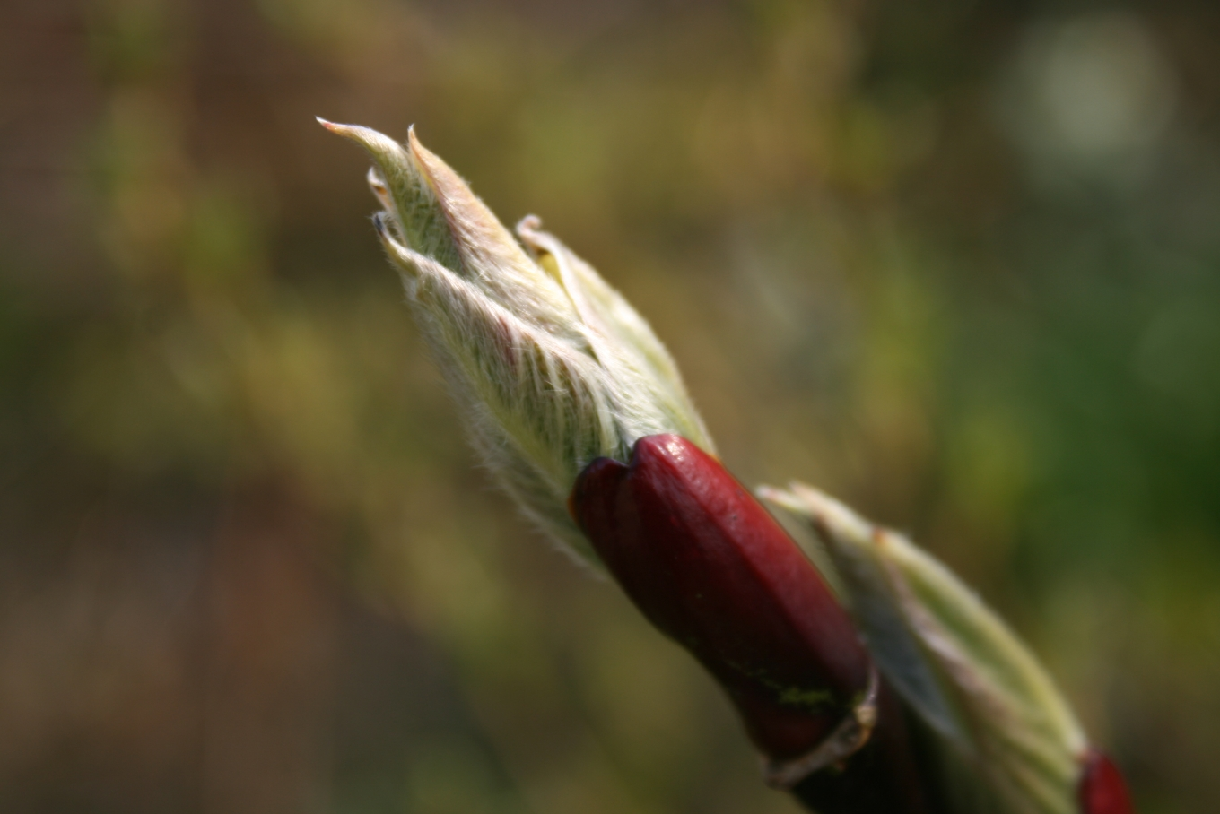 Salix moupinensis: Young shoot.